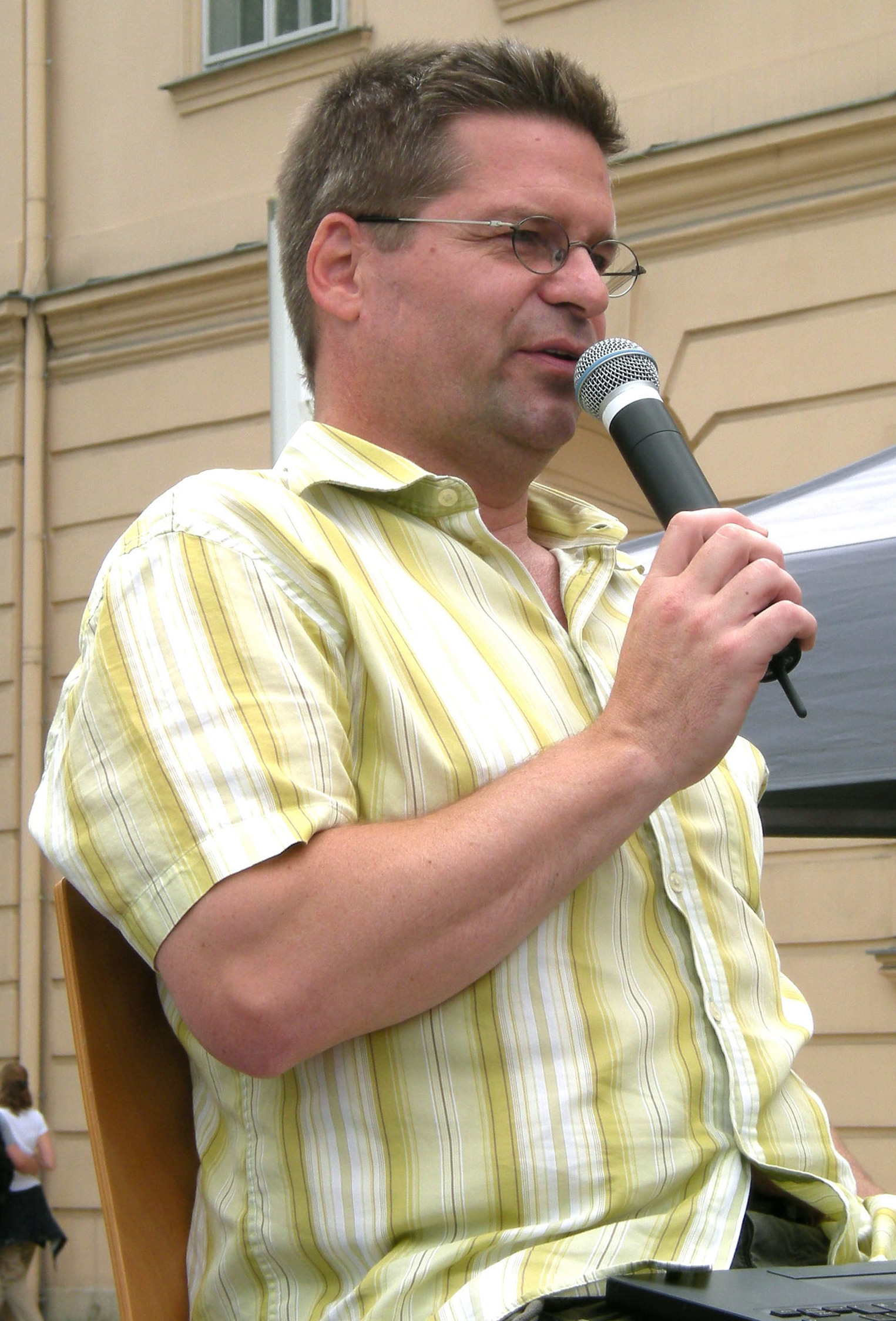 On occasion of annual Viennese Lange Tafel event, a couple Austrian actors&singer-songwriters performed 'open air', although weather was 'somewhat less than welcoming'. The event happened in front of Vienna's MQ.